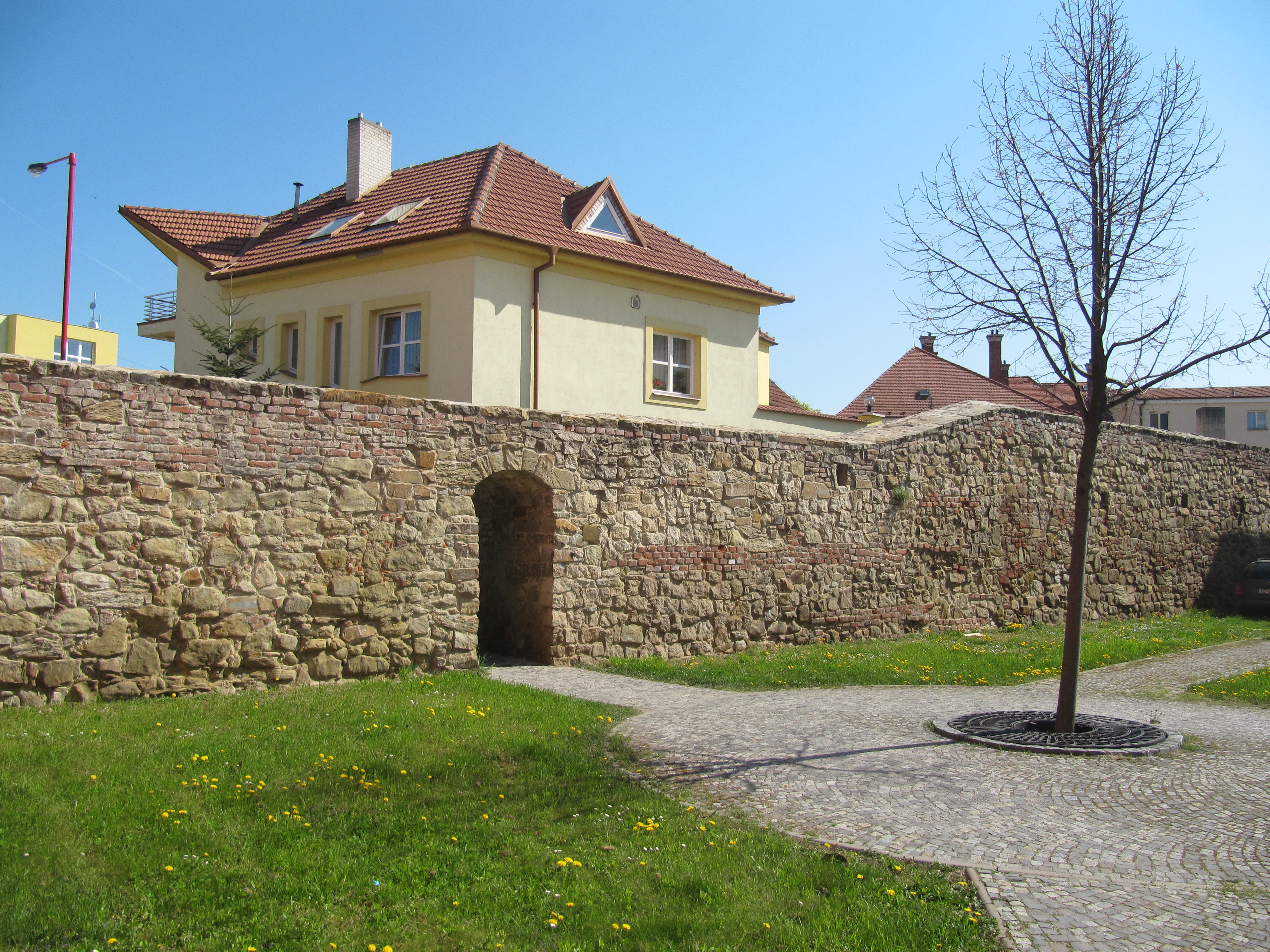 Uherské Hradiště, Czech Republic. Rest of the city wall at the Slovácké Museum Gallery.